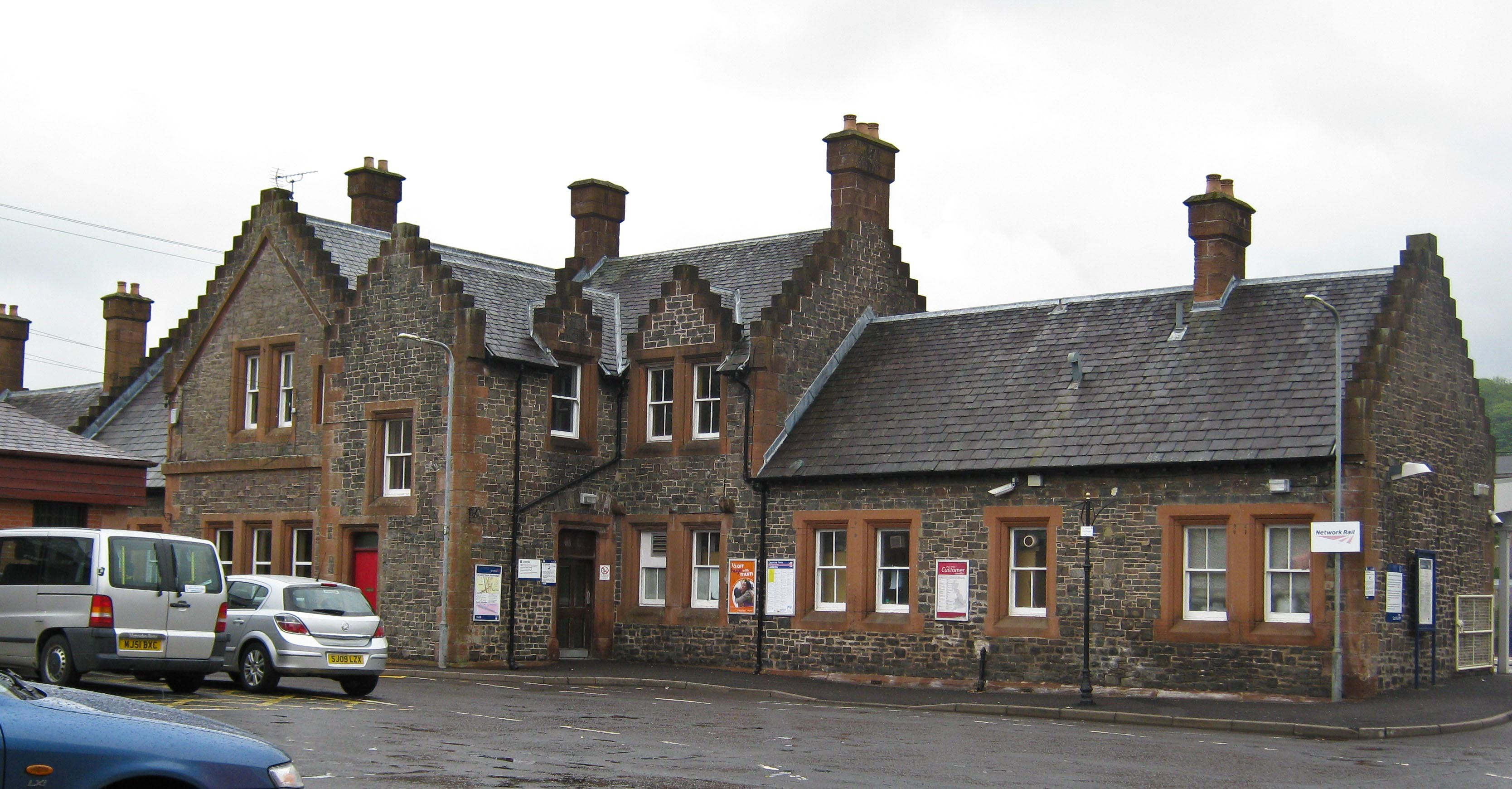 It's quite a big thing, and feels a bit school like.